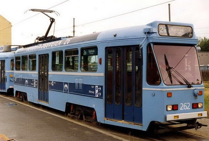 Oslo Sporveier SM83 tram no. 262 in new colors at the loop at Skøyen.